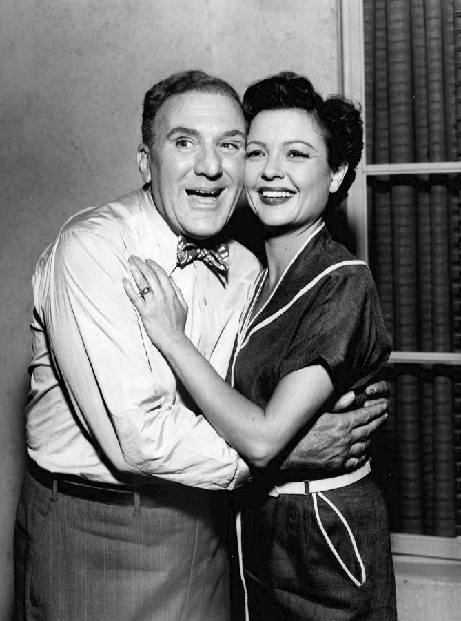 Photo of William Bendix as Chester Riley and Marjorie Reynolds as his wife, Peg, from the television program The Life of Riley.